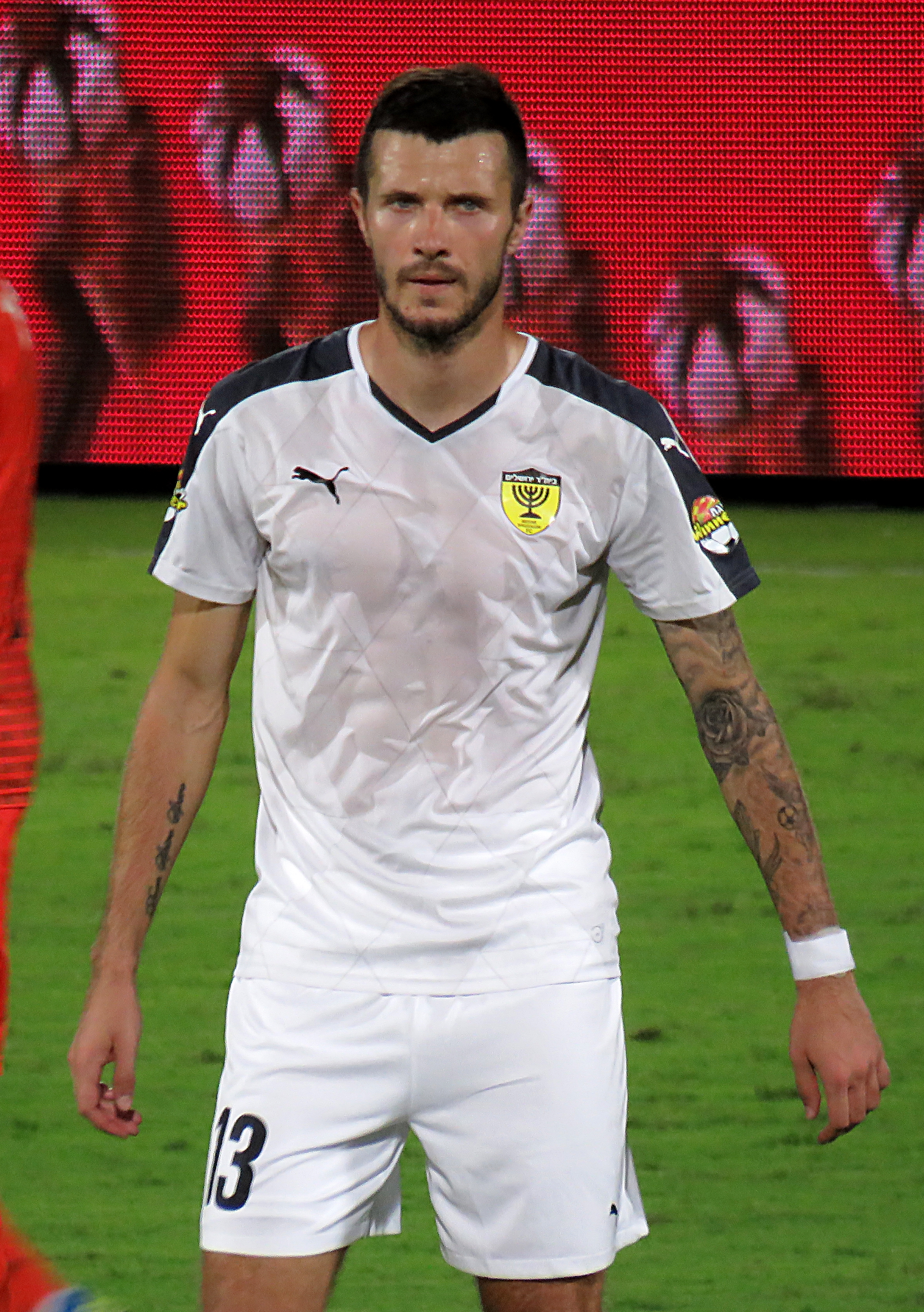 Bnei Yehuda Tel Aviv vs. Beitar Jerusalem - 19 September, 2015